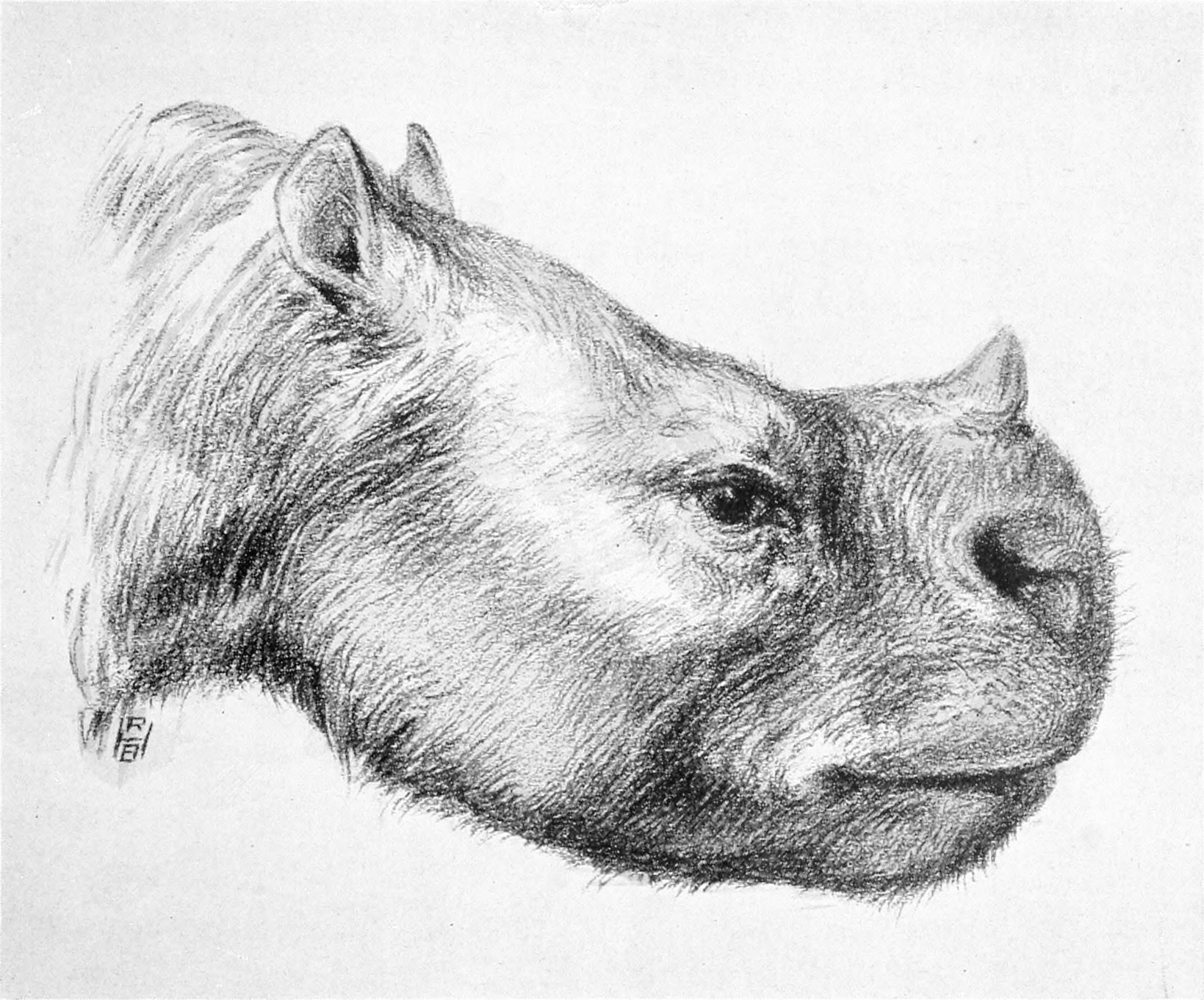 Life restoration of Leontinia gaudryi from W.B. Scott's "A History of Land Mammals in the Western Hemisphere." New York: The Macmillan Company.